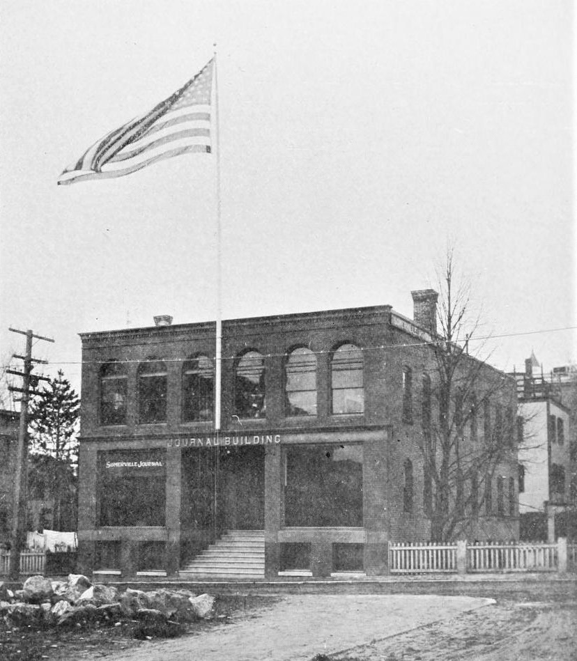 Black and white photograph of the Somerville Journal Building, a newspaper publisher, Somerville, Massachusetts, United States. From Somerville, past and present, by Edward Augustus Samuels, Henry Hastings Kimball, printed 1897, page 473, scanned by Google Books.